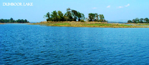 Dumboor lake of the Gandacherra region in Dhalai district of Tripura, India.